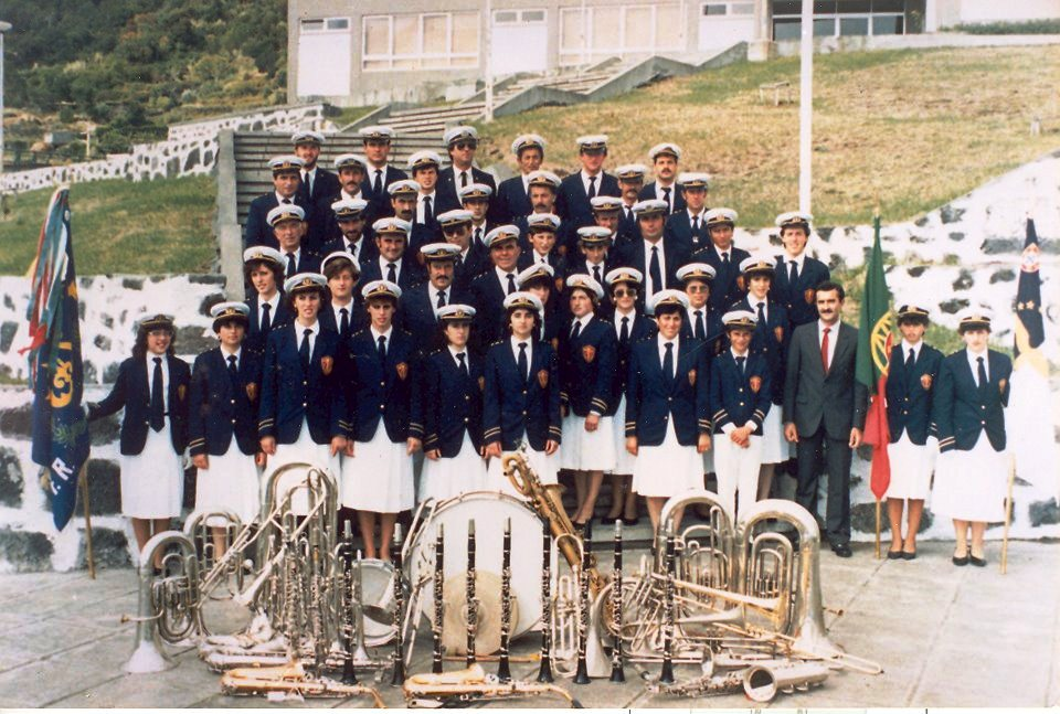 Sociedade Filarmónica Recreio de São Lázaro, 1995